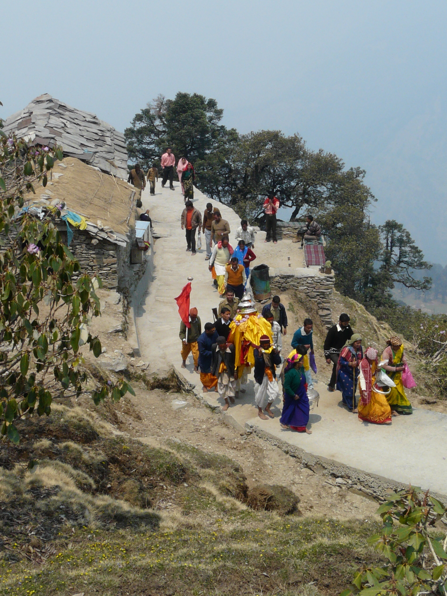 Idol procession moving out of Dev Darshani towards Tungnath temple.